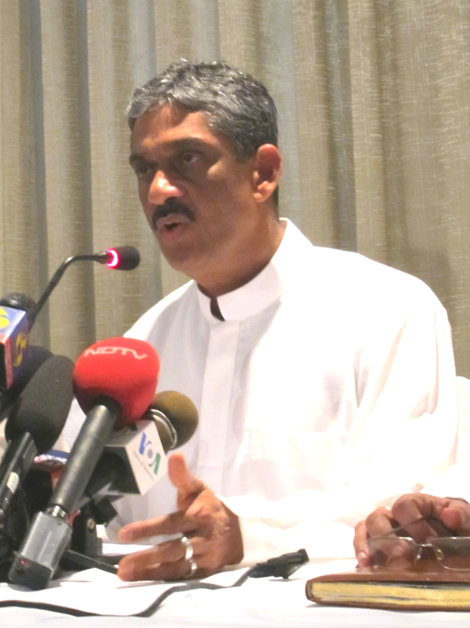 Sarath Fonseka, former commander of the Sri Lankan Army, presidential candidate, Member of Parliament